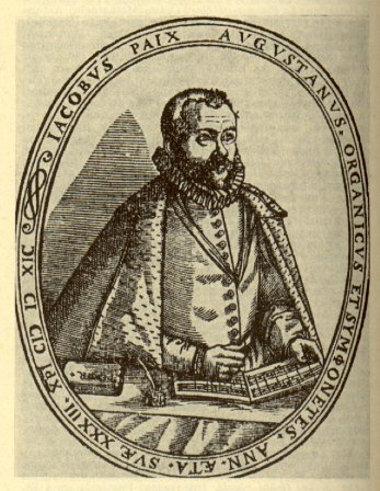 Jacob Paix in the age of 33